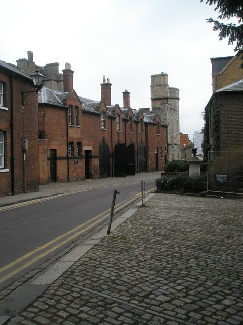 The Royal Mews at the bottom of St Alban's Street